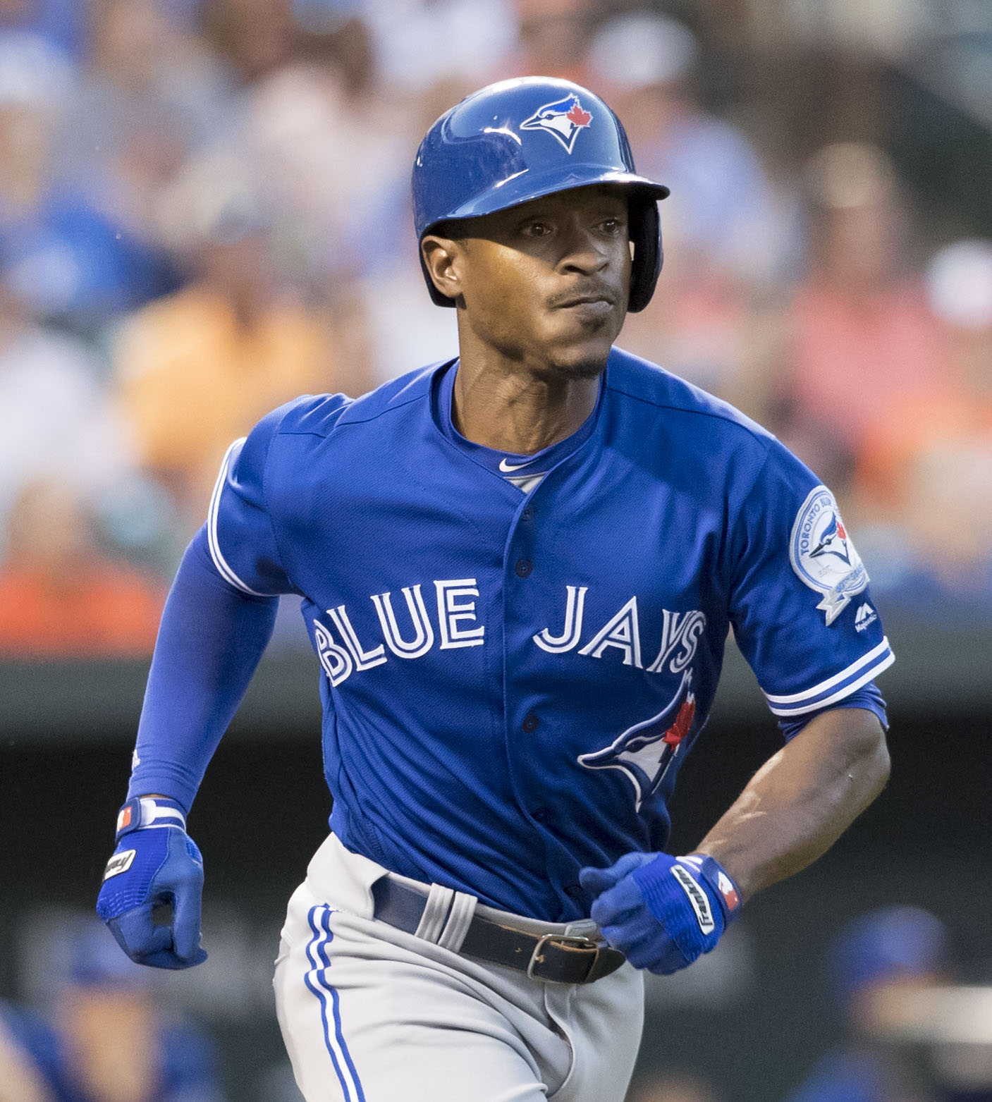 Melvin Upton Jr. on August 30, 2016